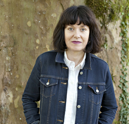 Portrait of the Author